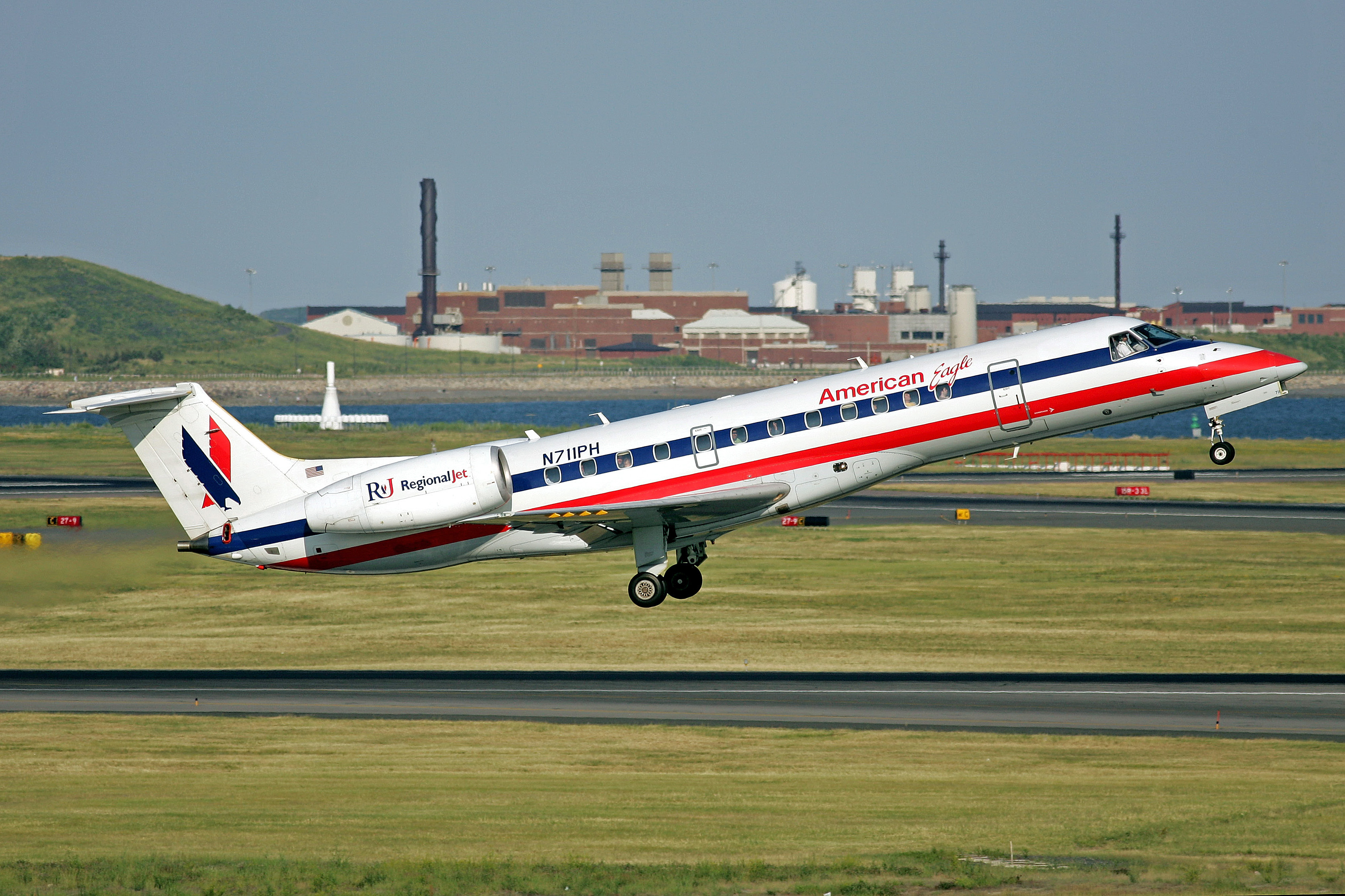 Leaving the runway at Logan Airport Boston, Massachusetts USA.